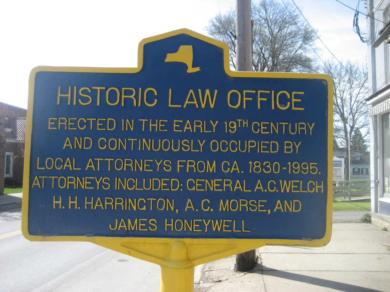 Historic marker of historic Law Office, continuously occupied by local attorneys from 1830-1995. Attorneys included General A.C. Welch, H.H. Harrington, A.C. Morse, and James Honeywell